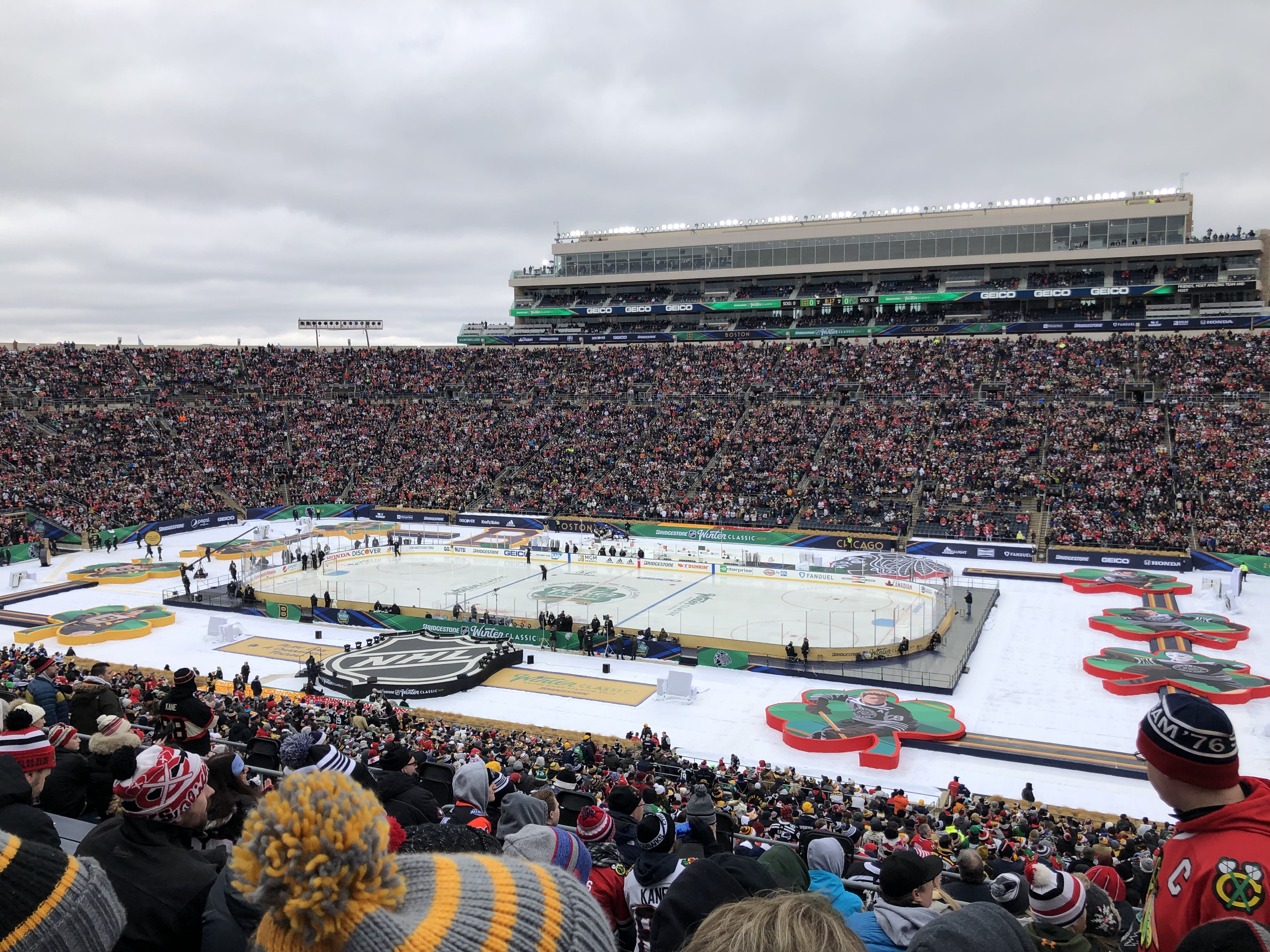 The first NHL game to be played in Indiana in over 50 years (and the sixth overall), at the Winter Classic in Notre Dame Stadium on 2019-01-01, between the Boston Bruins and Chicago Blackhawks